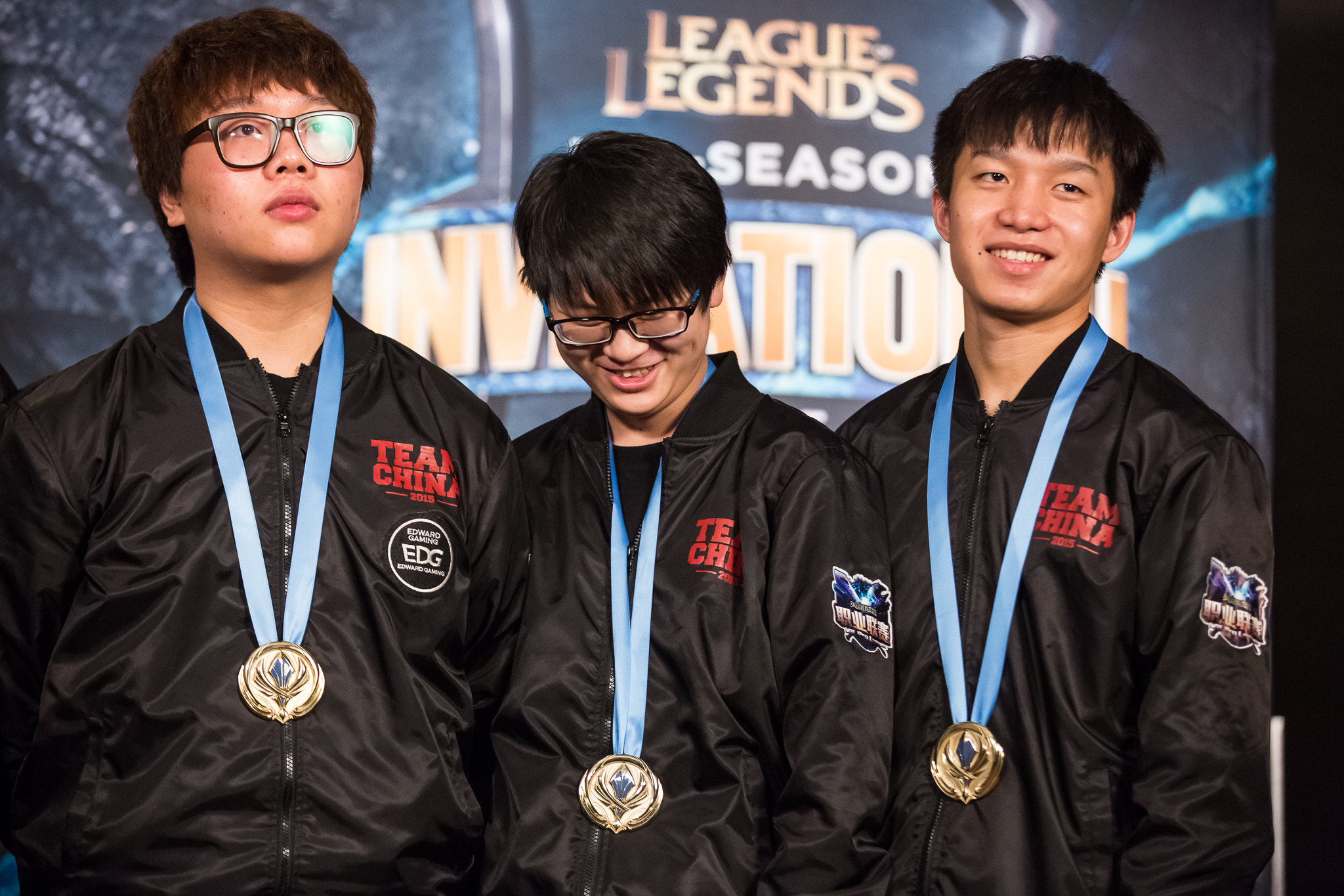 Players from Edward Gaming pose with their medals after winning the League of Legends 2015 Mid-Season Invitational 500px provided description: 1cun9181 Jpg [#LOL ,#MSI ,#RIOT ,#RIOTgames]